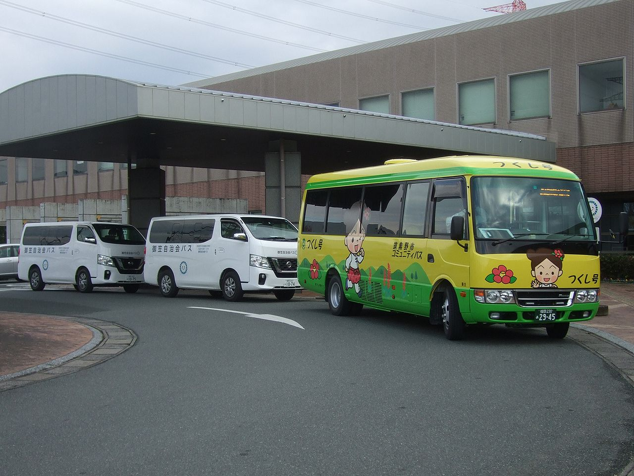 Chikushino City community buses at "Camellia Chikushino".